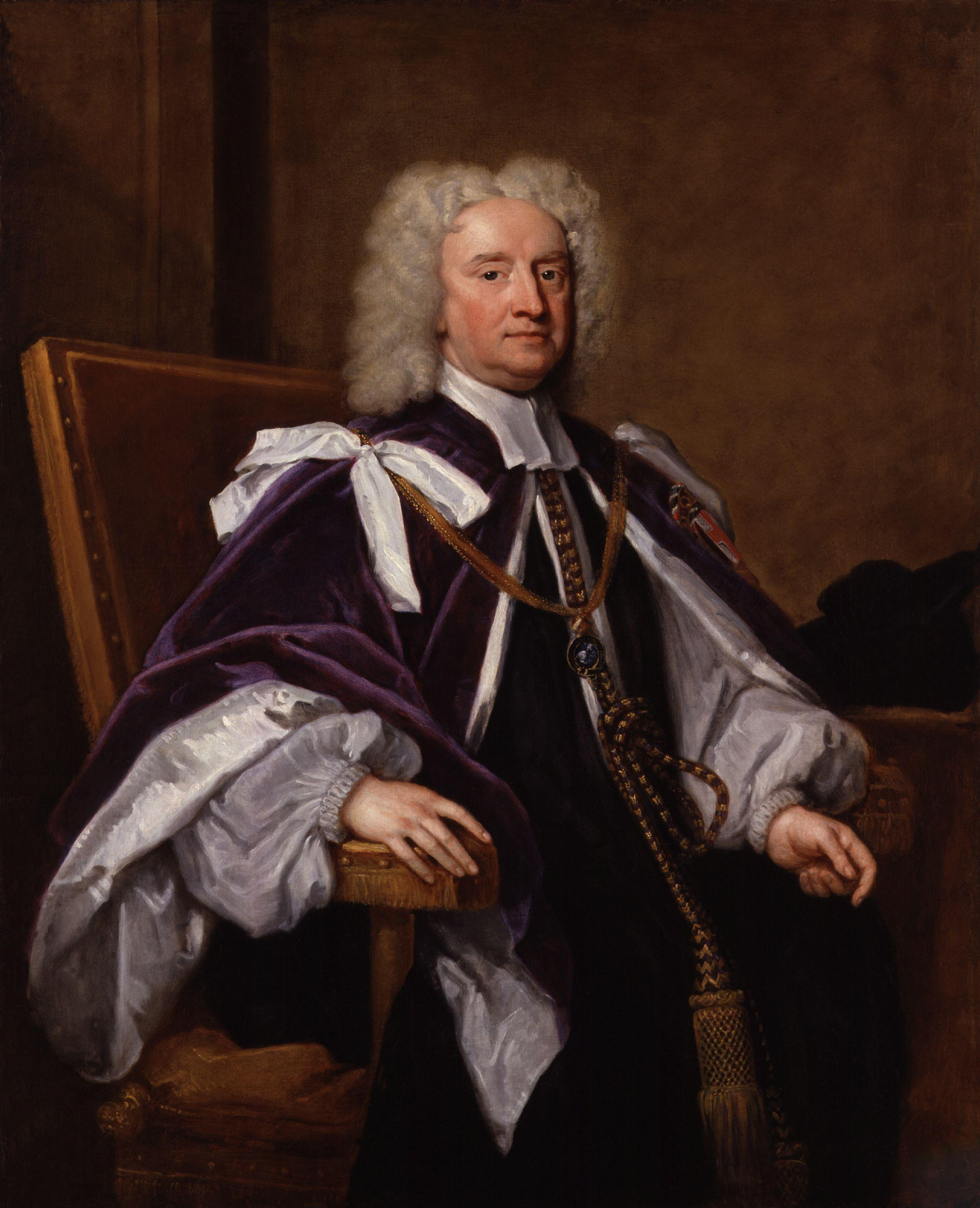 All images in this batch have been confirmed as author died before 1939 according to the official death date listed by the NPG.